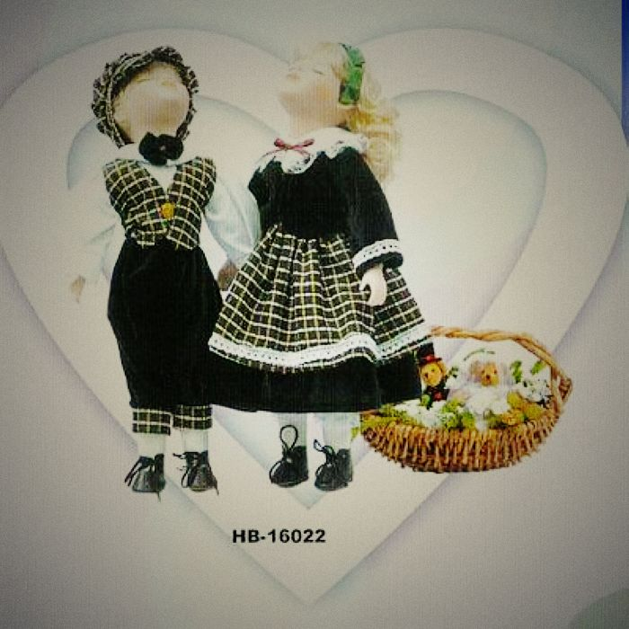 xianjugongyipin.jpg